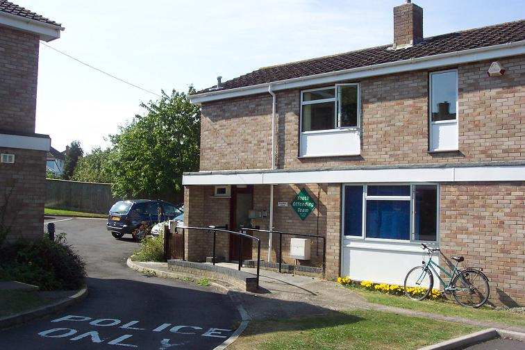 Photograph of the Street YOT office, taken myself.